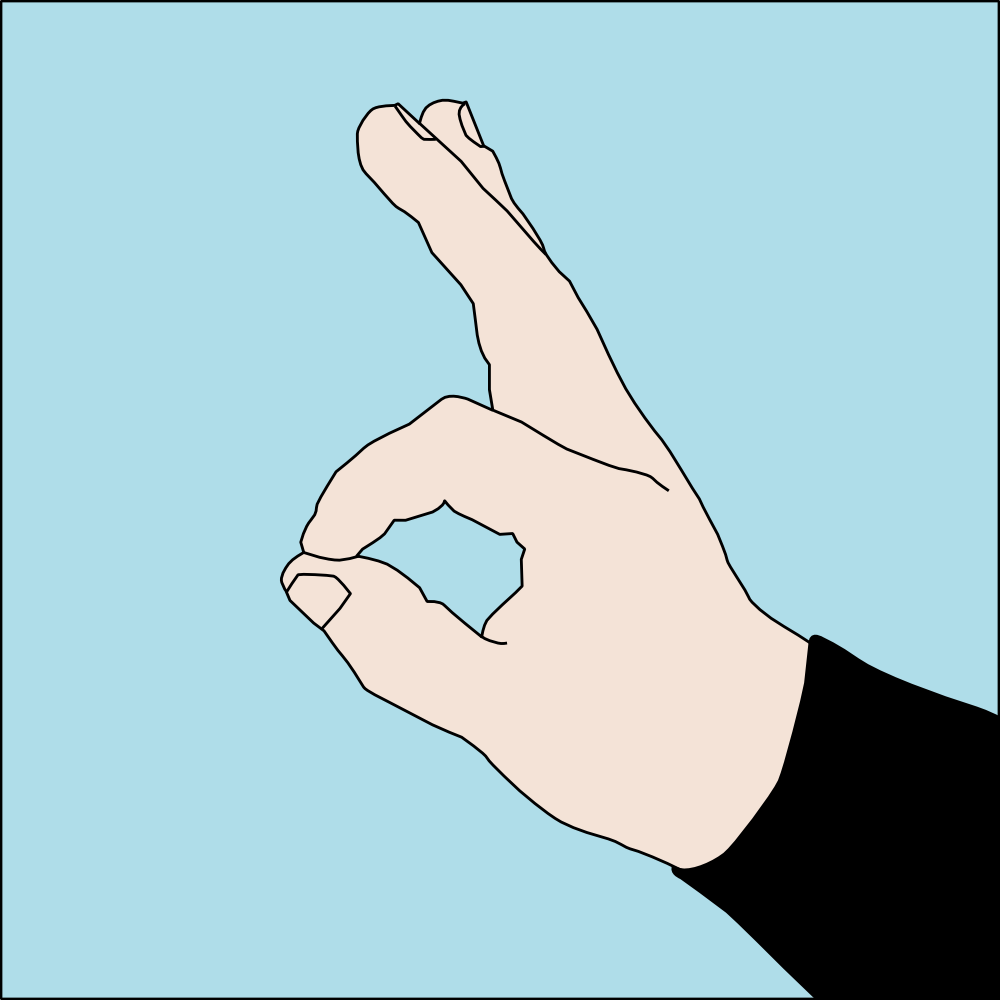 RSTC standard hand signal for scuba diving - OK, version 1